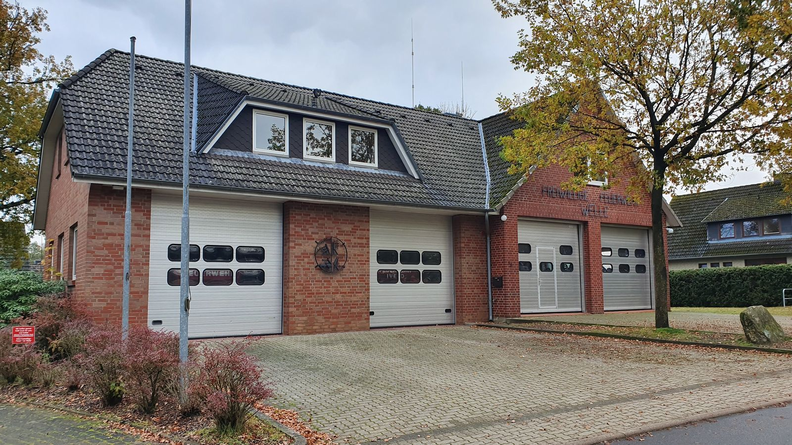 Firestation in Welle